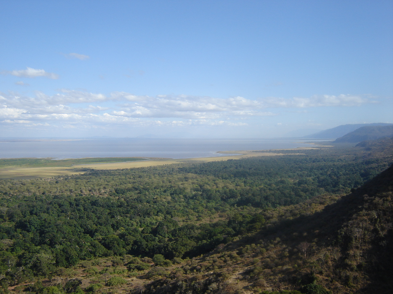 An overlook of the park with the lake in the background. 1 megapixel picture taken at an overlook 3/4 up the way of the rift wall, directly north from the Lake Manyara visitor center.